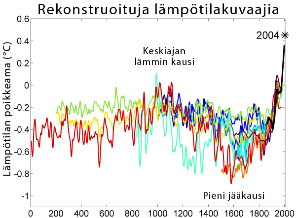 Reconstructed temperatures from the last 2000 years.